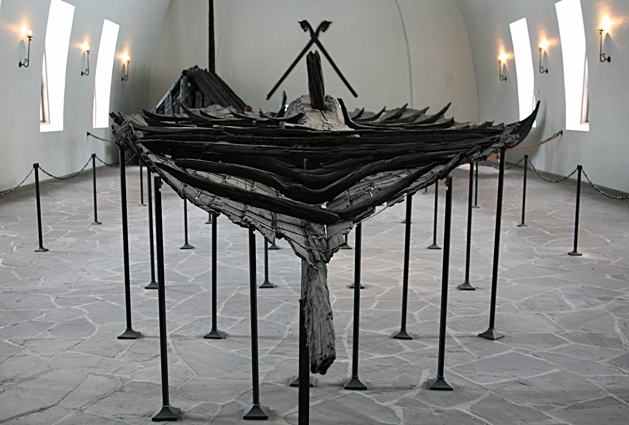 The Tune ship, see also Tuneskipet